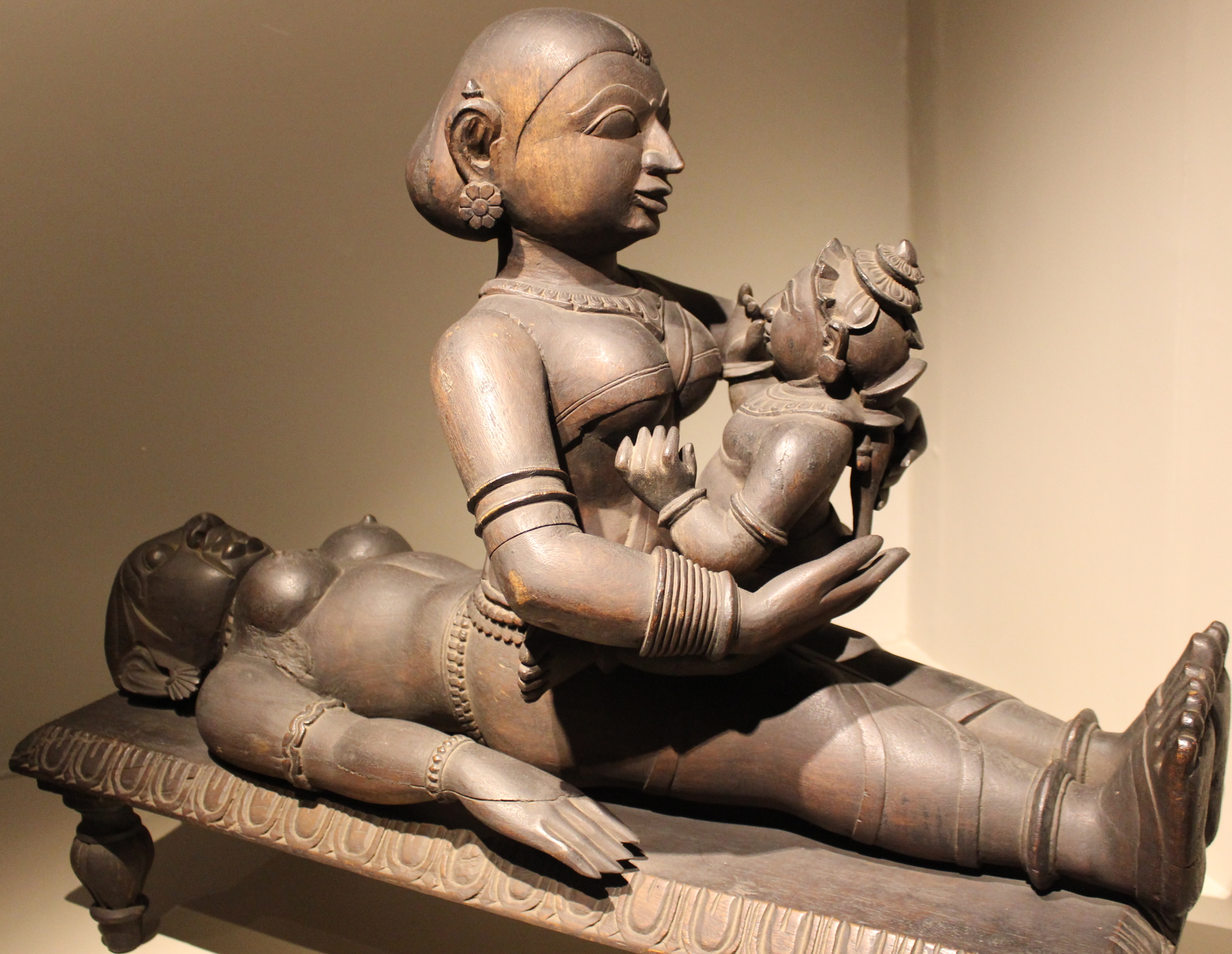 Putana suckling baby Krishna